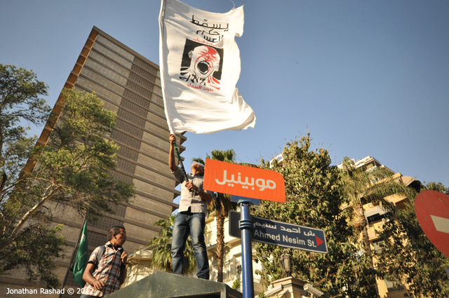 On April 24, 2012 hundreds of Egyptians protested in front of Saudi Embassy headquarters in Cairo, in objection to the arrest of Ahmed Gizawy in Saudi because of his views on the king. Gizawy was sentenced to one year in prison and 20 lashes.